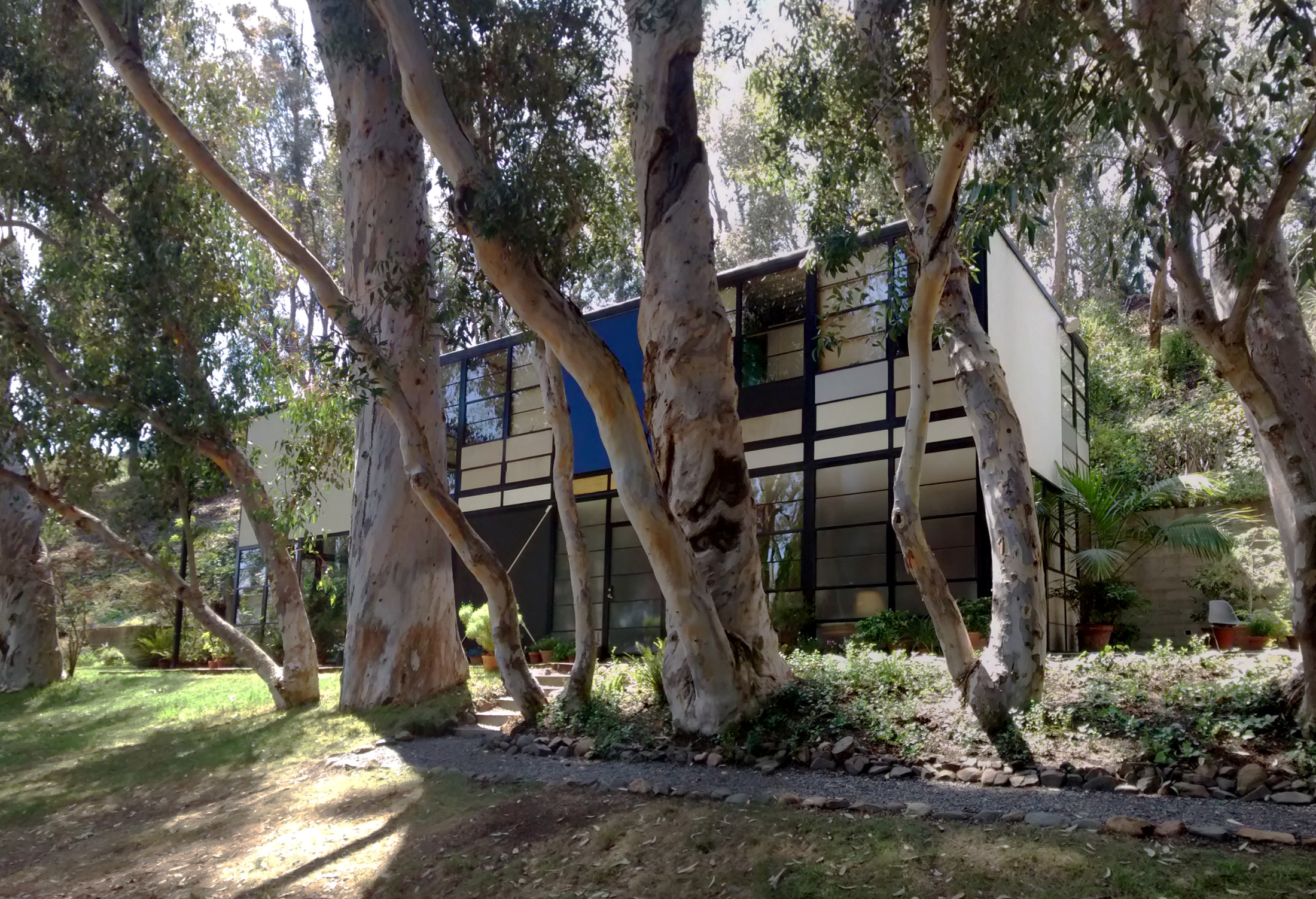 Eames House, Case Study House No. 8, Charles and Ray Eames, 1949, Chautauqua Boulevard, Pacific Palisades, Los Angeles